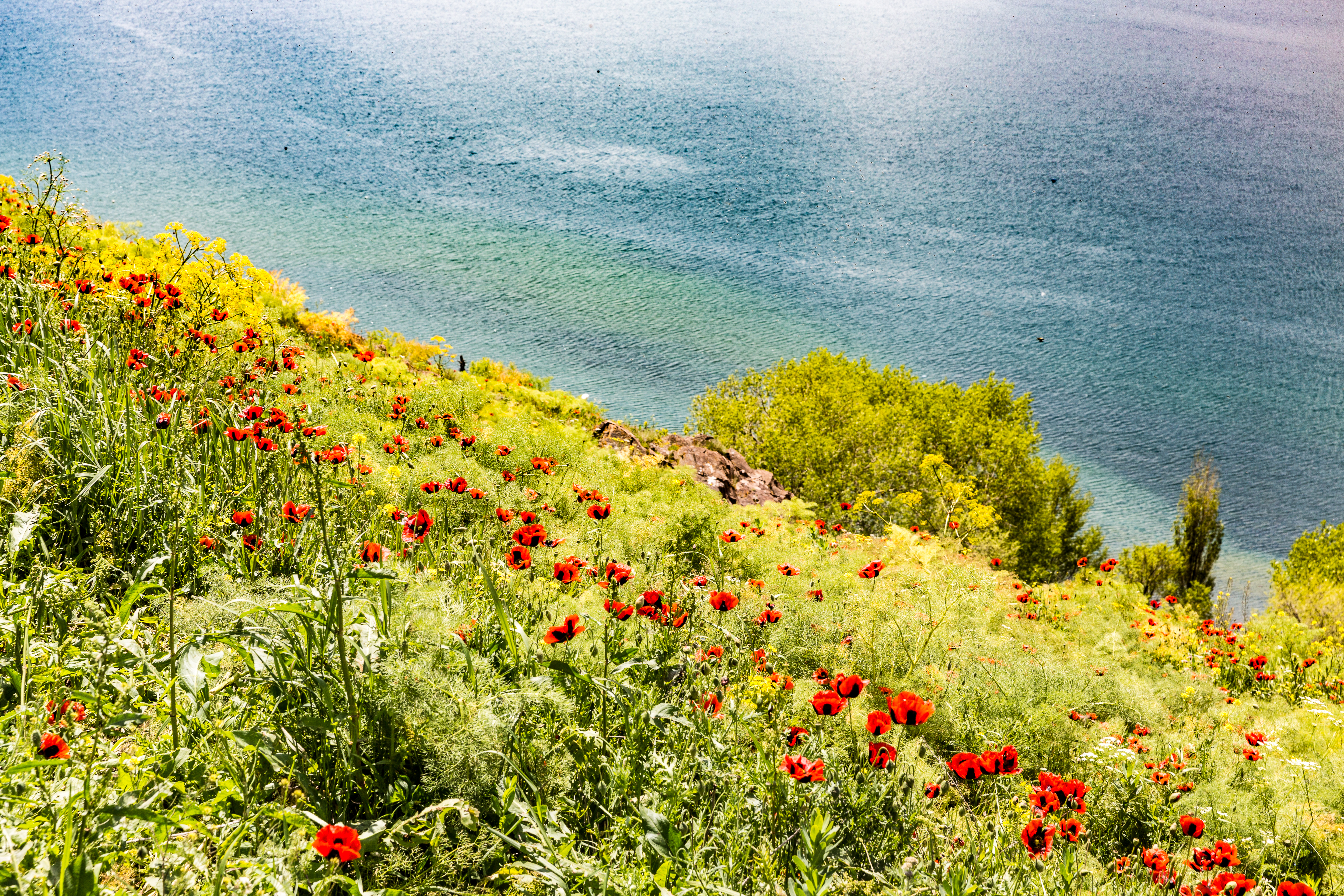 Poppies, Lake Sevan, Armenia. June 2016